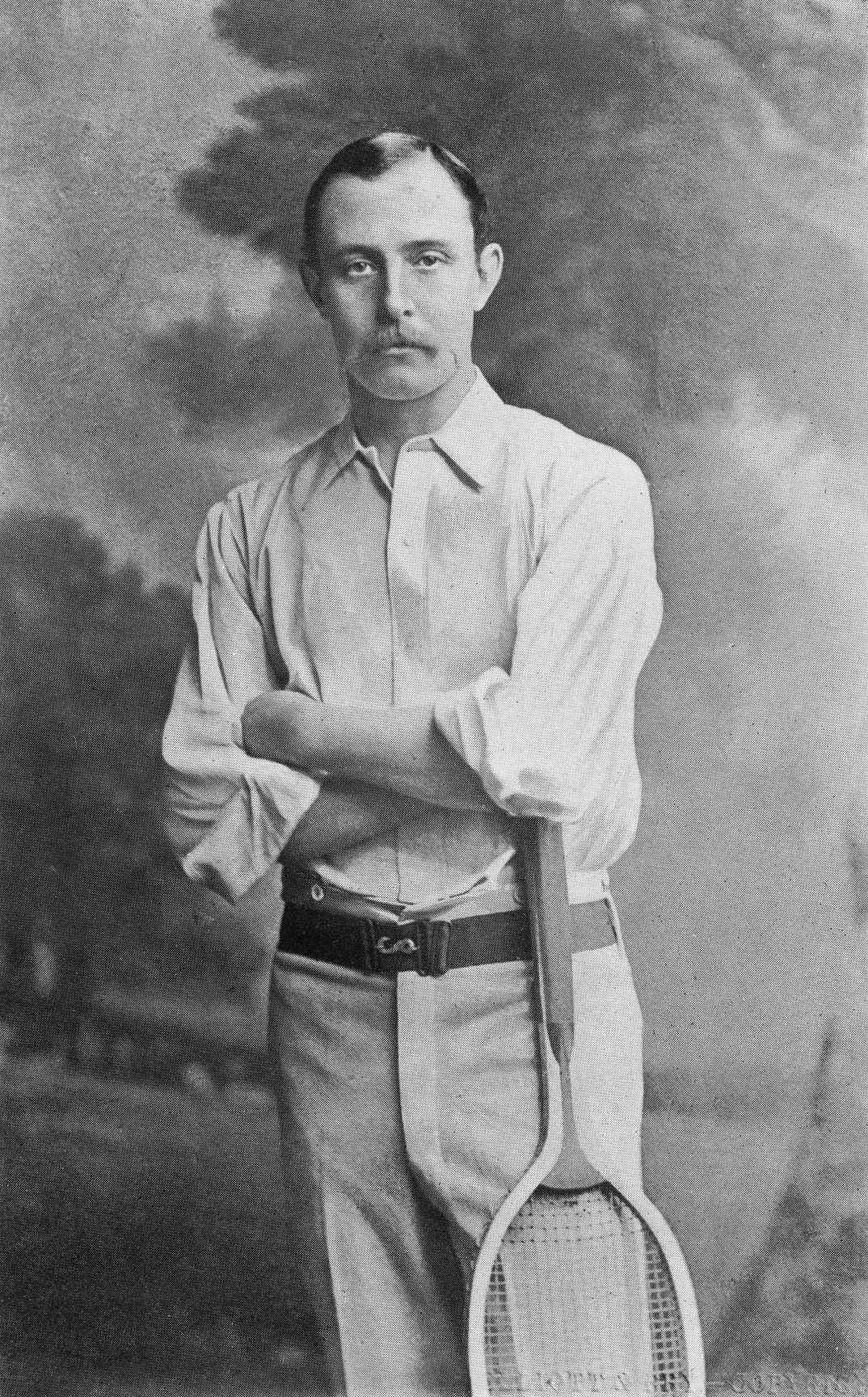 English tennis player Ernest Renshaw